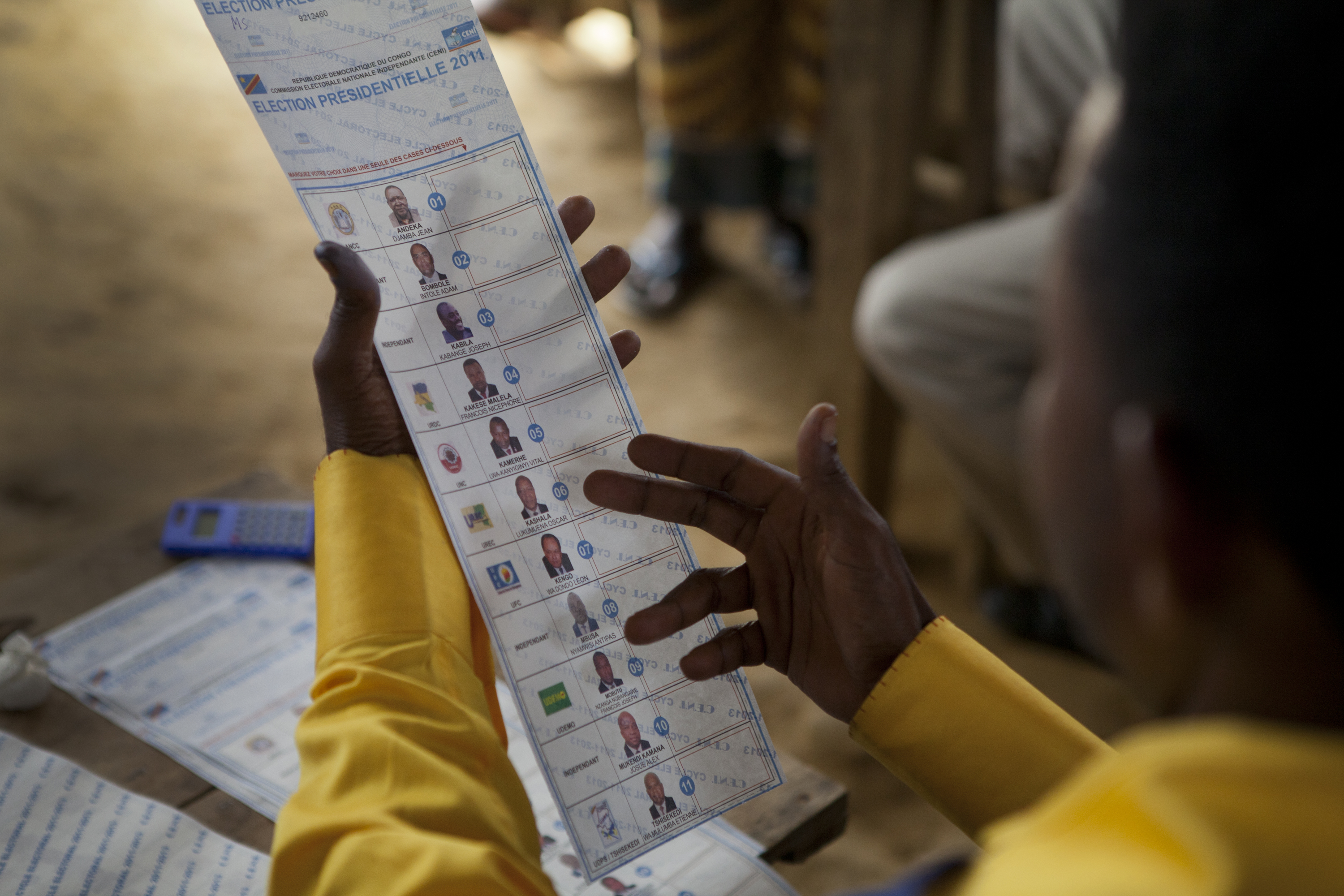 Presidential and legislative elections in DRC, Walikale 28 november 2011.